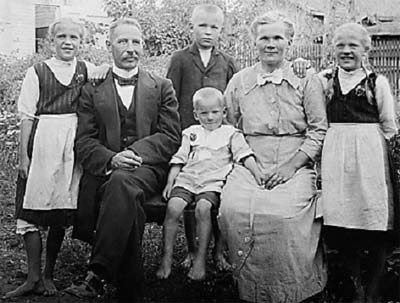 Finnish red guard leader Aatto Koivunen with his family.